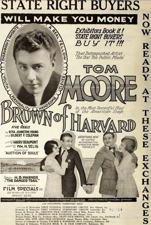 Ad for the American film Brown of Harvard (1918) with Tom Moore and Hazel Daly, page 1218 of the August 9, 1919 Motion Picture News.